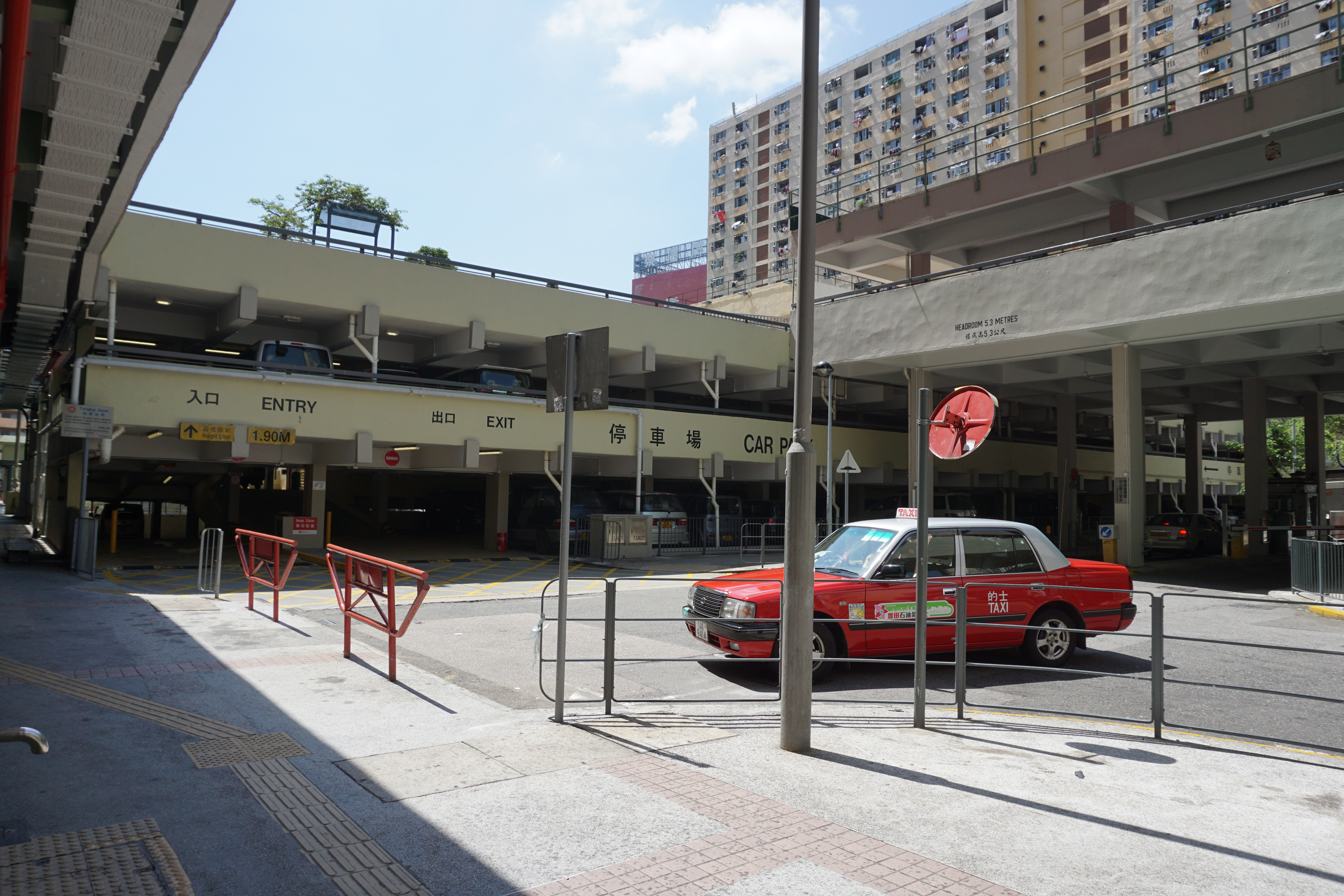 Kwai Shing West Estate in Kwai Shing, Hong Kong.